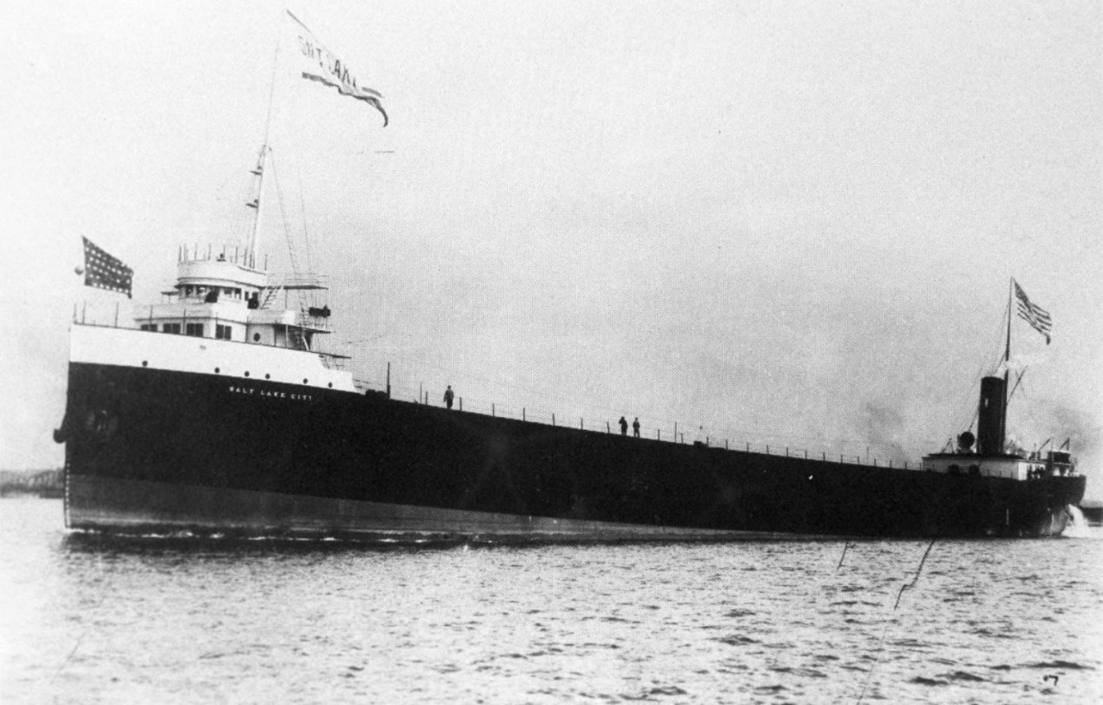 The freighter Salt Lake City underway